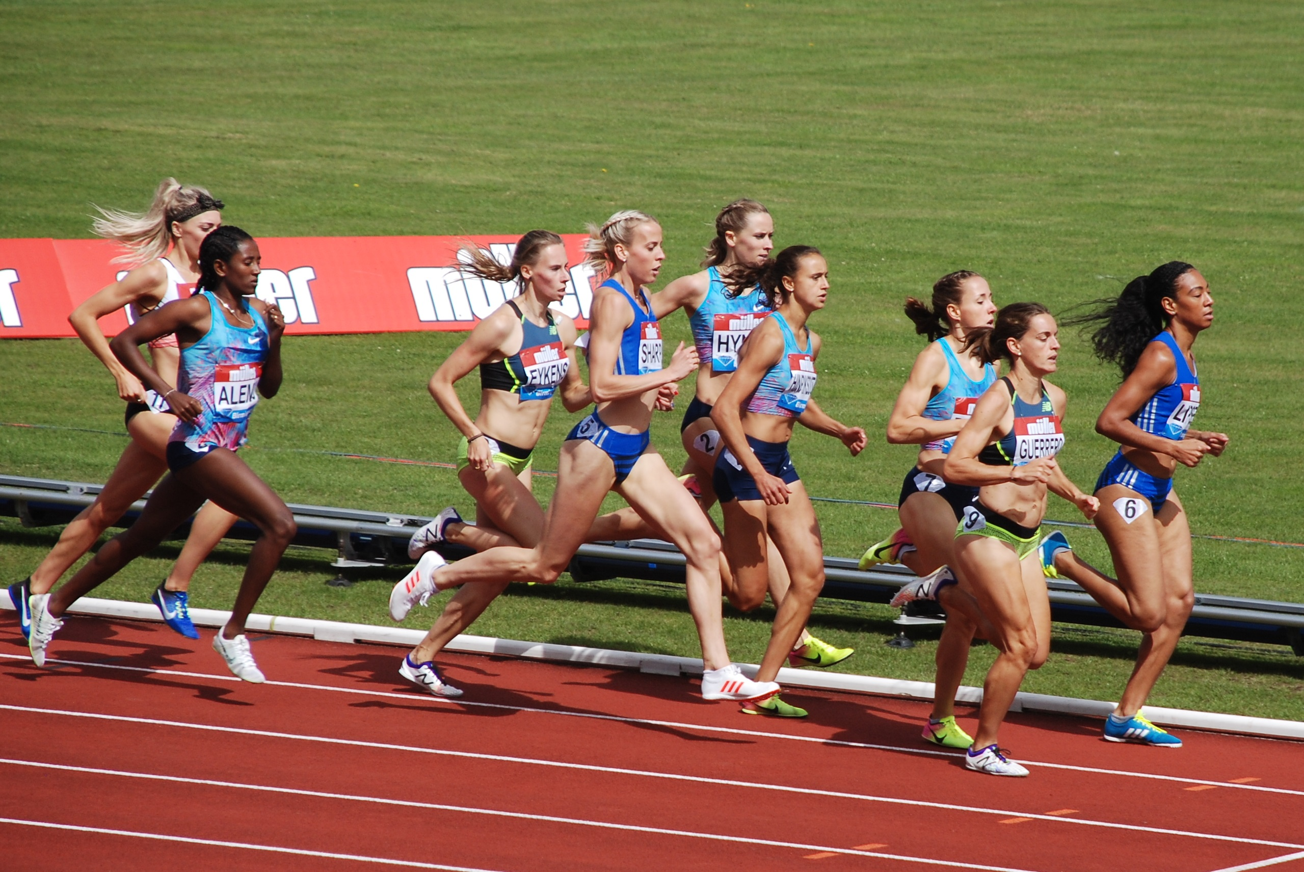 Womens 800m event at Muller Diamond League Birmingham Grand Prix